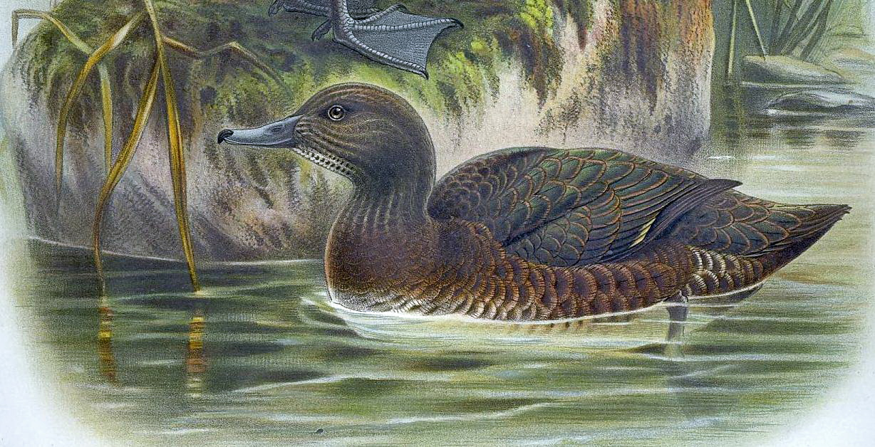 Anas aucklandica. Original description: Auckland-Island Duck, Nesonetta aucklandica.